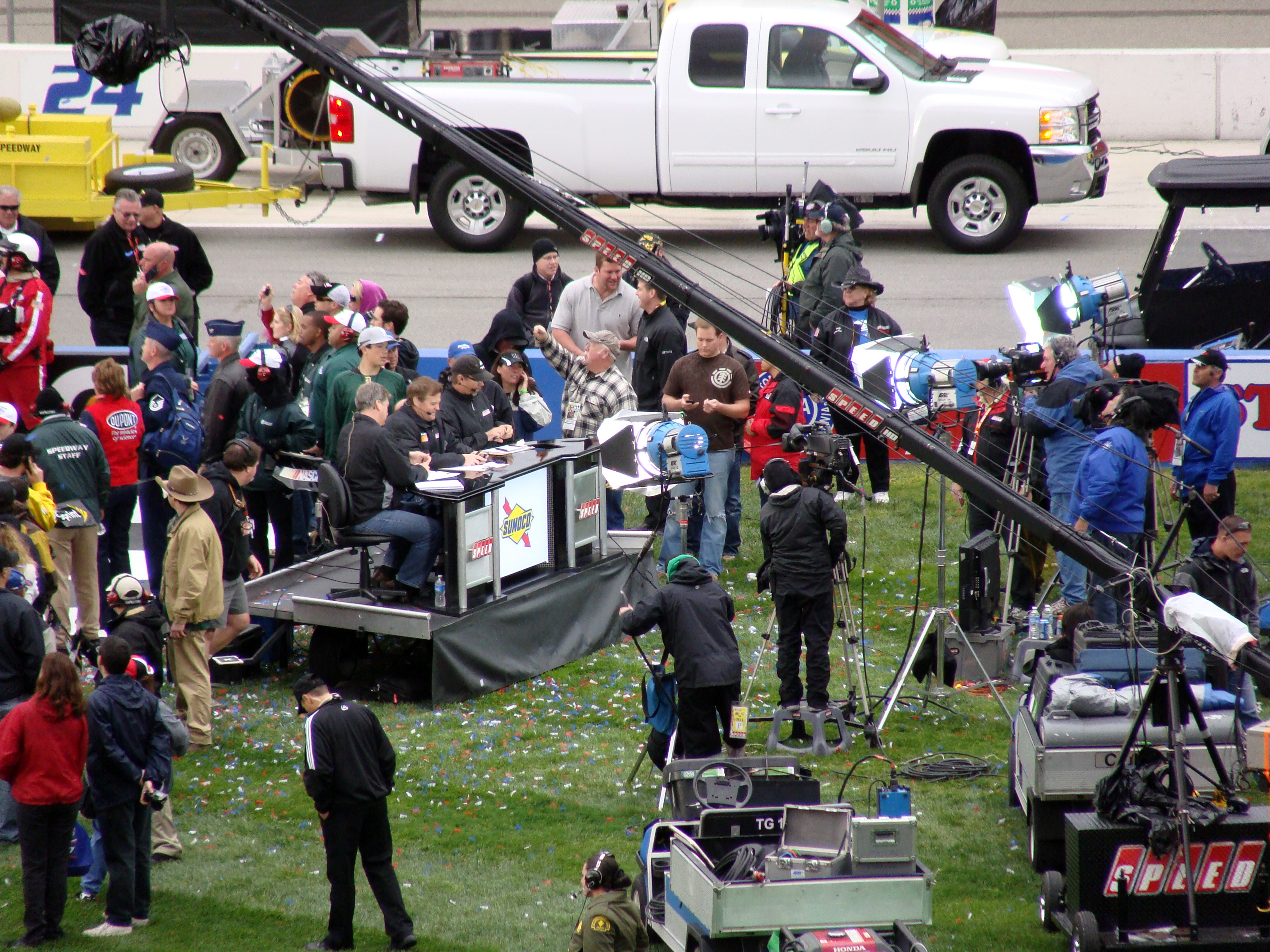 The Nascar on Speed Victory Lane set setup near victory lane following a race at Auto Club Speedway.